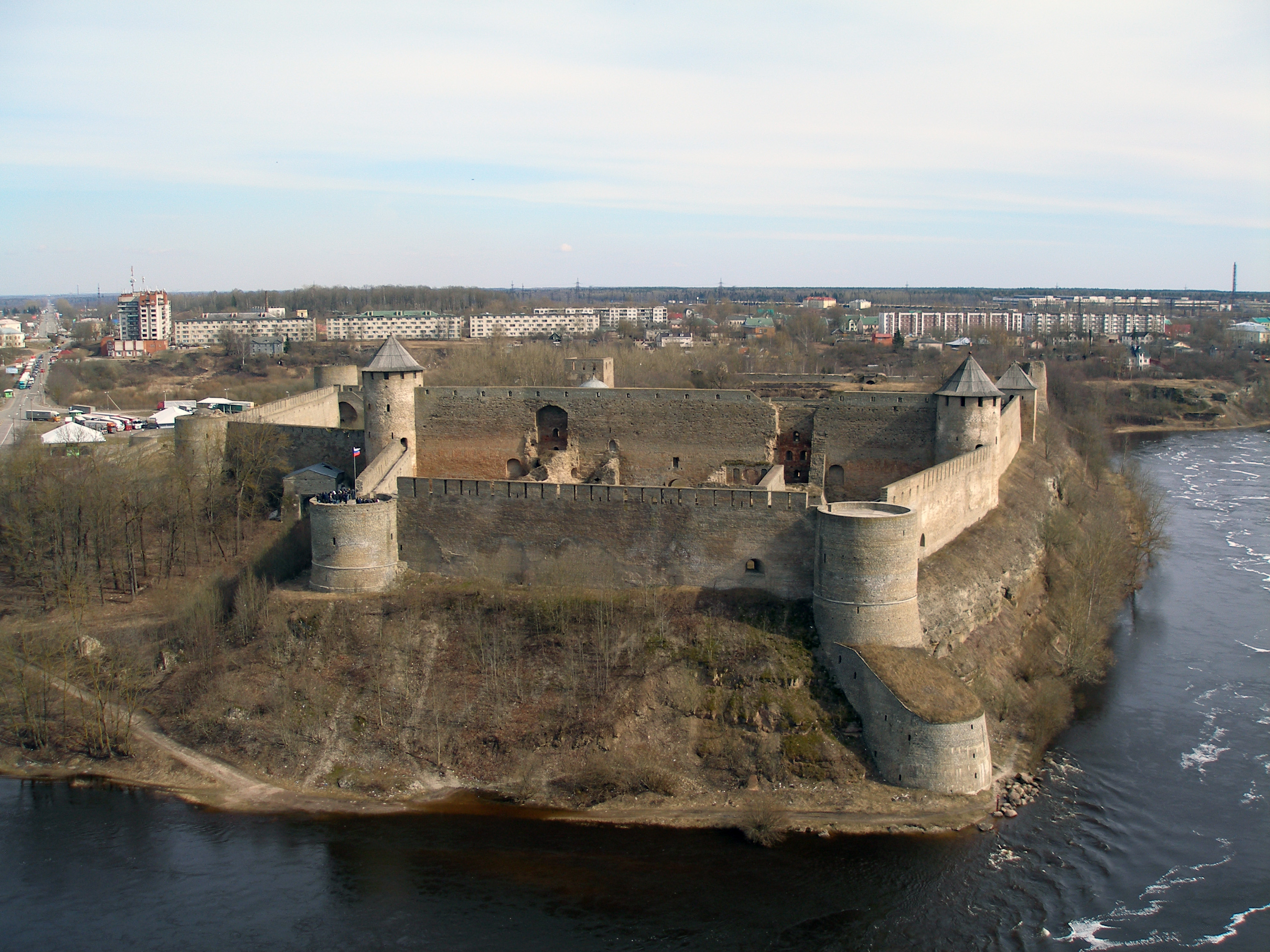 Ivangorod fortress in spring 2009, picture taken from the tower of Narva Castle.